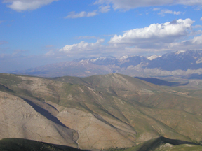 I took the photograph. A version of it is also at my website: The photograph shows the Nigde Massif on its eastern side, with a view north-northeast to the Aladaglar.